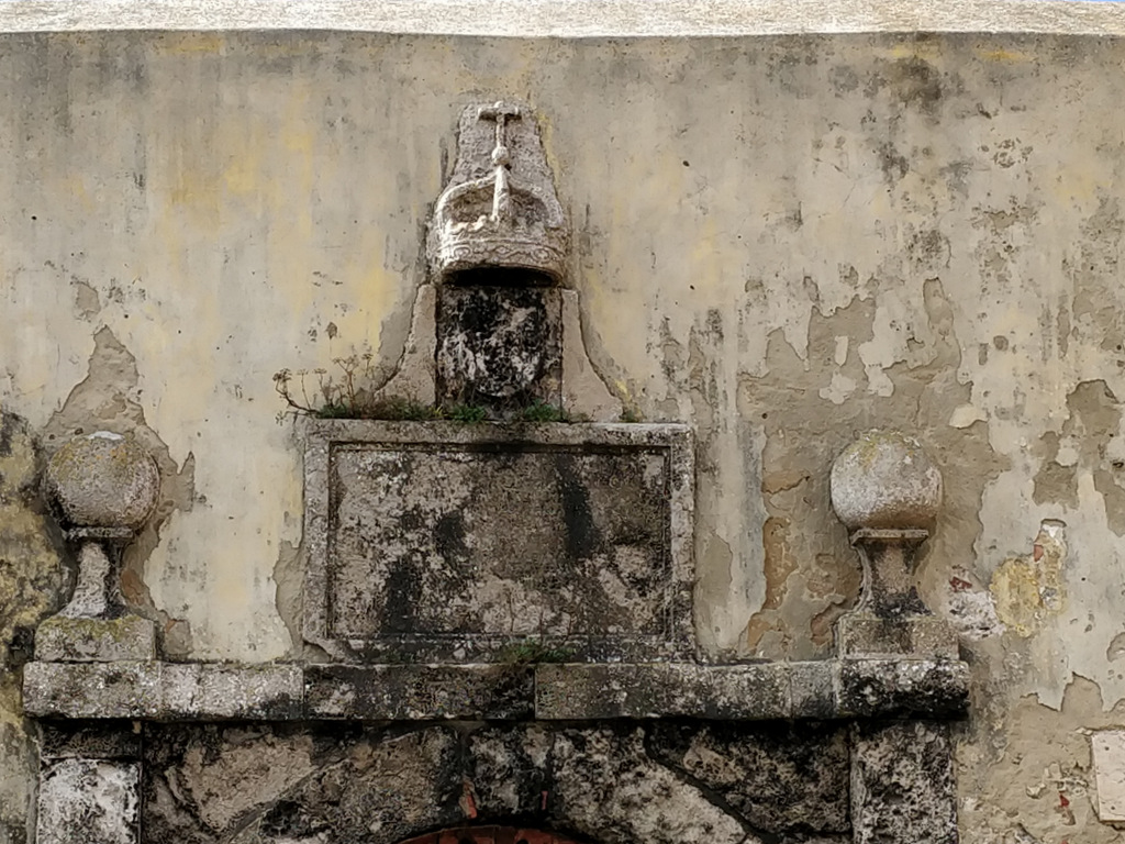 View of the entrance to Forte de Praia da Consolação, on Consolation Beach just south of Peniche, Lisbon District, Portugal